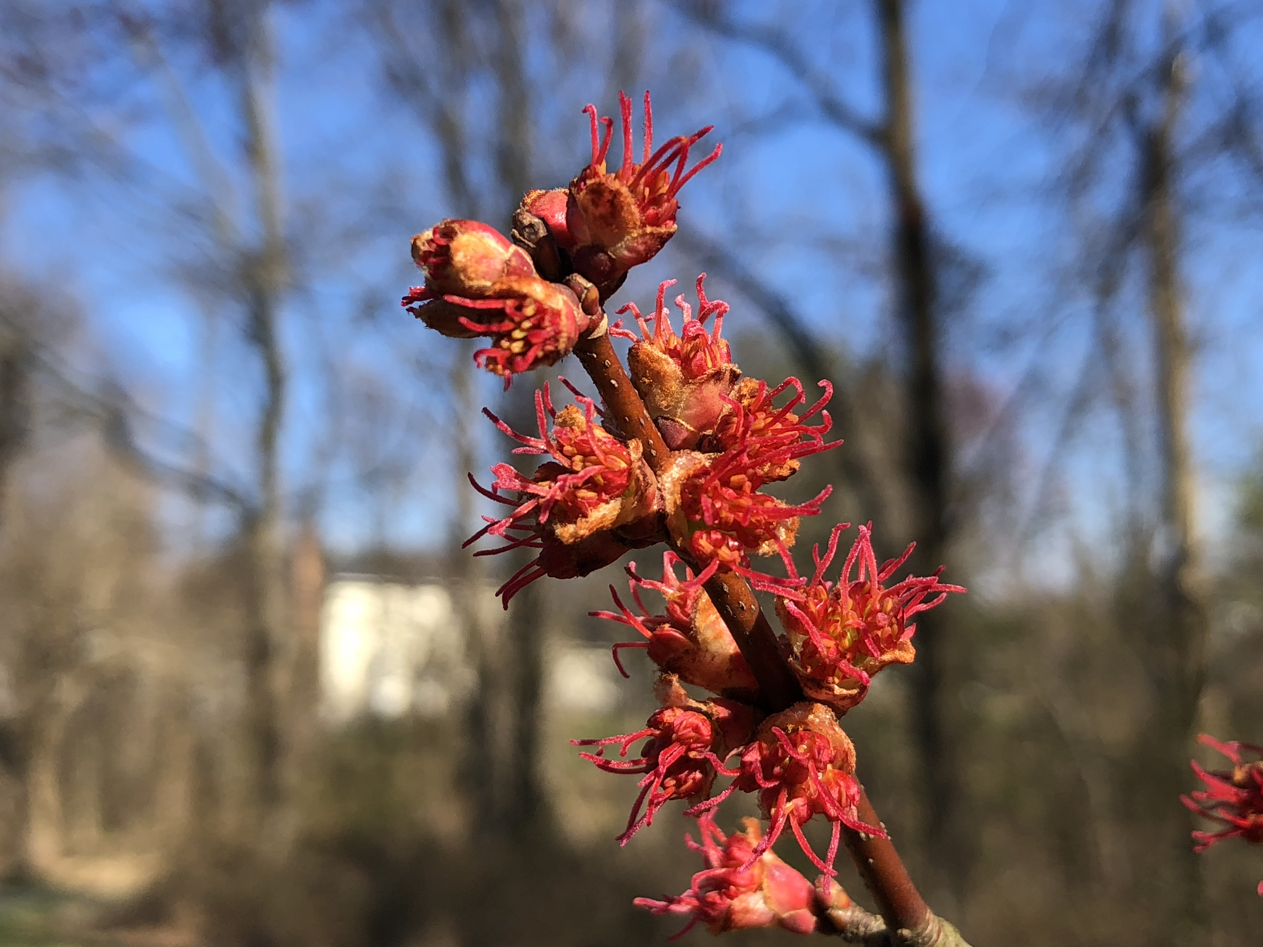 Female Red Maple flowers along a walking path in the Franklin Farm section of Oak Hill, Fairfax County, Virginia